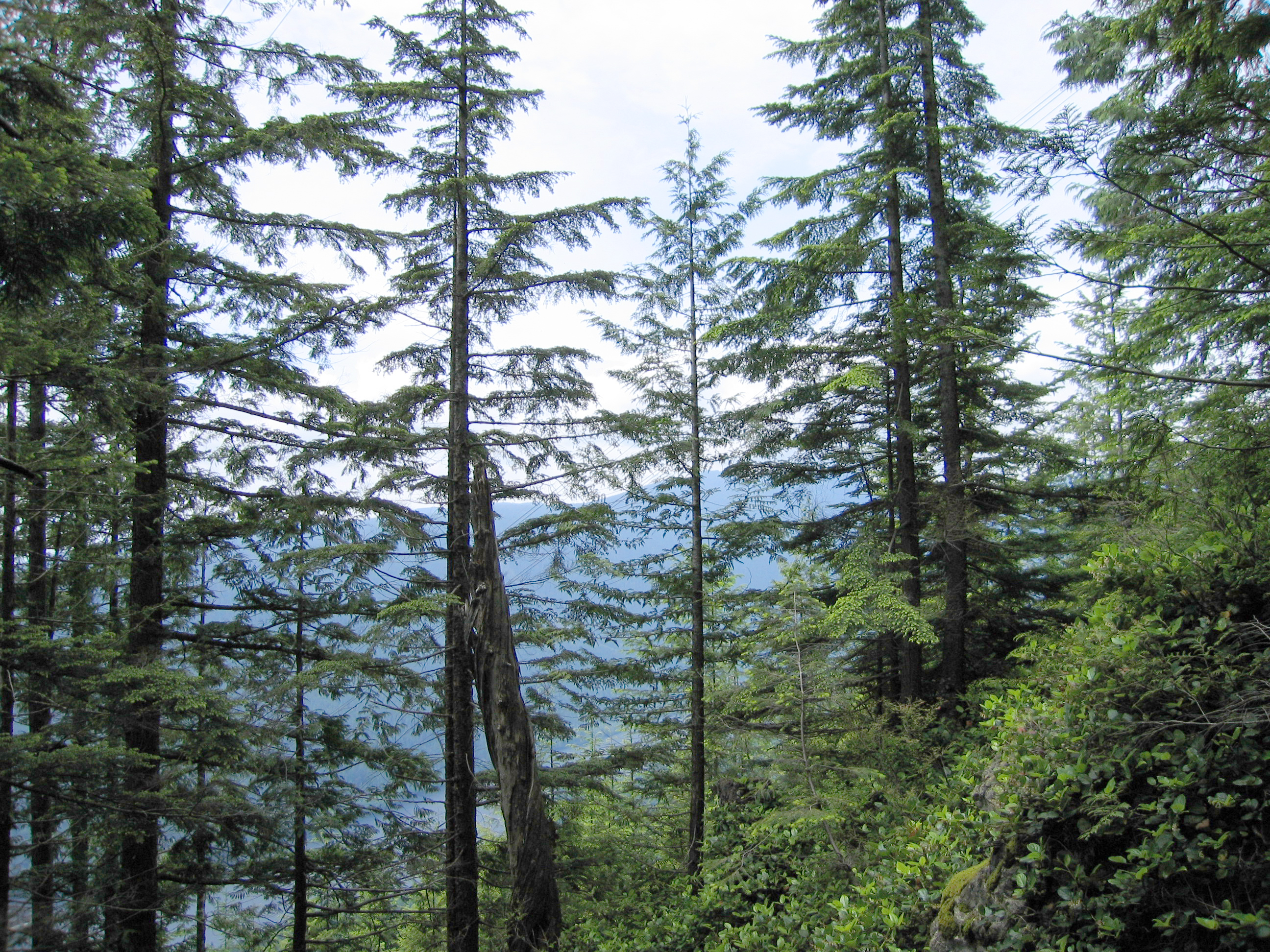 A view from the Grouse Grind trail on Grouse Mountain, BC, Canada. Identifiable trees include Tsuga heterophylla and Thuja plicata, and Gaultheria shallon shrubs.